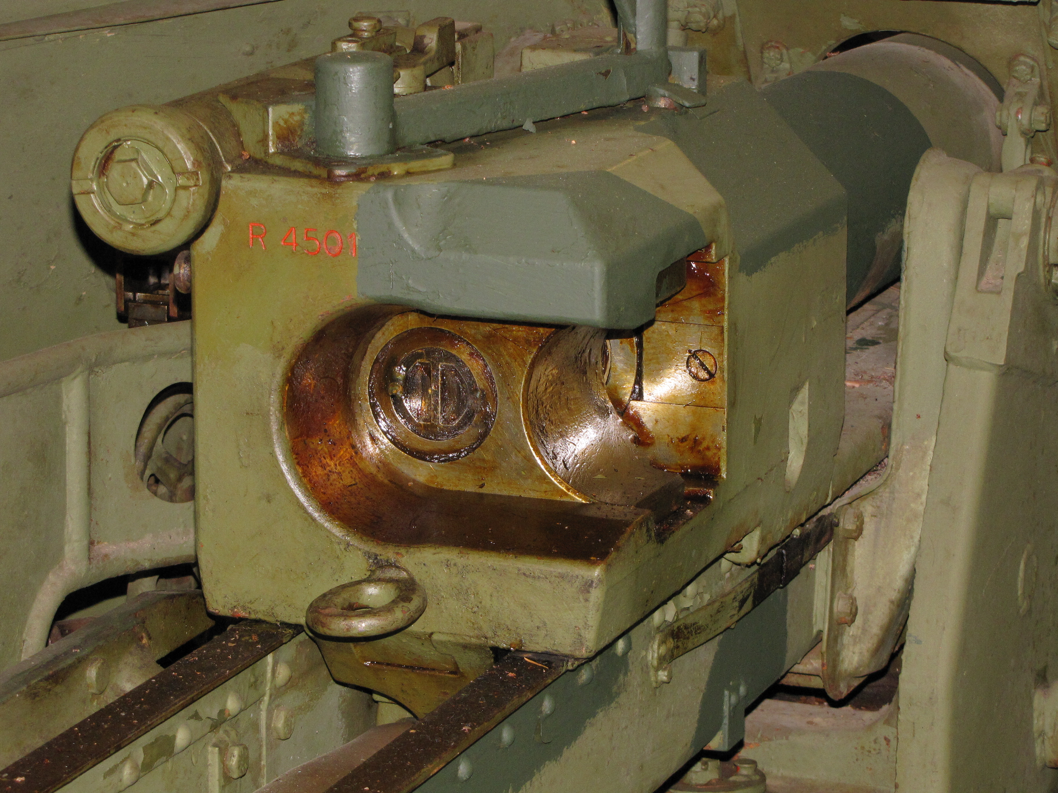 Horizontal breech block of German 7.5 cm Pak 40 anti-tank gun in Hanko Front Museum.